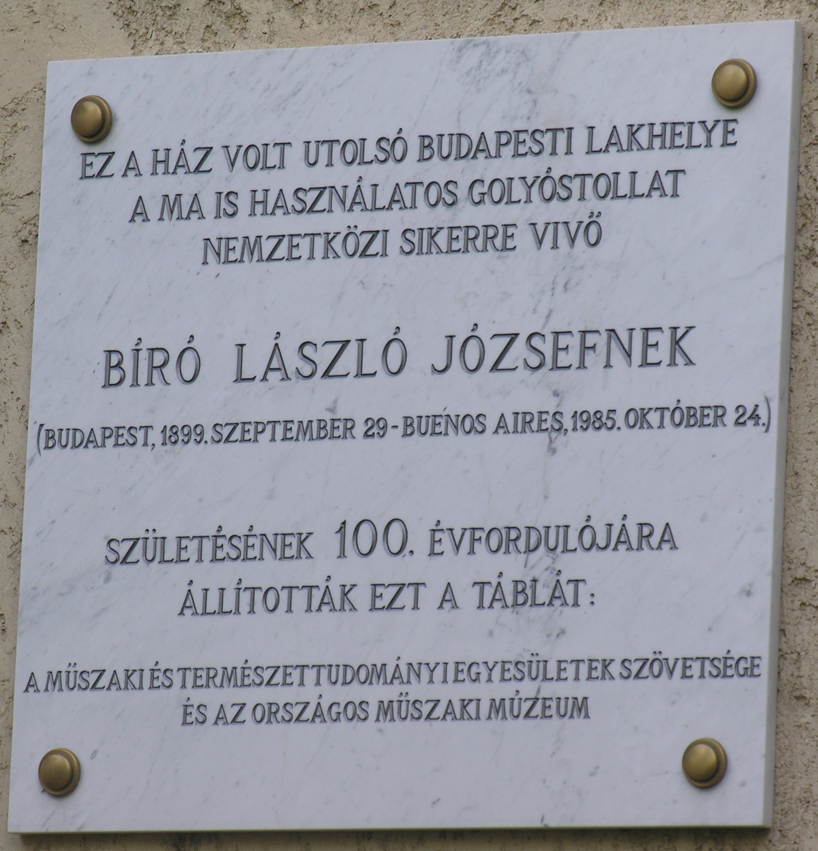 Commemorative plaque of László József Bíró (Budapest District II, Cimbalom Street No 12)